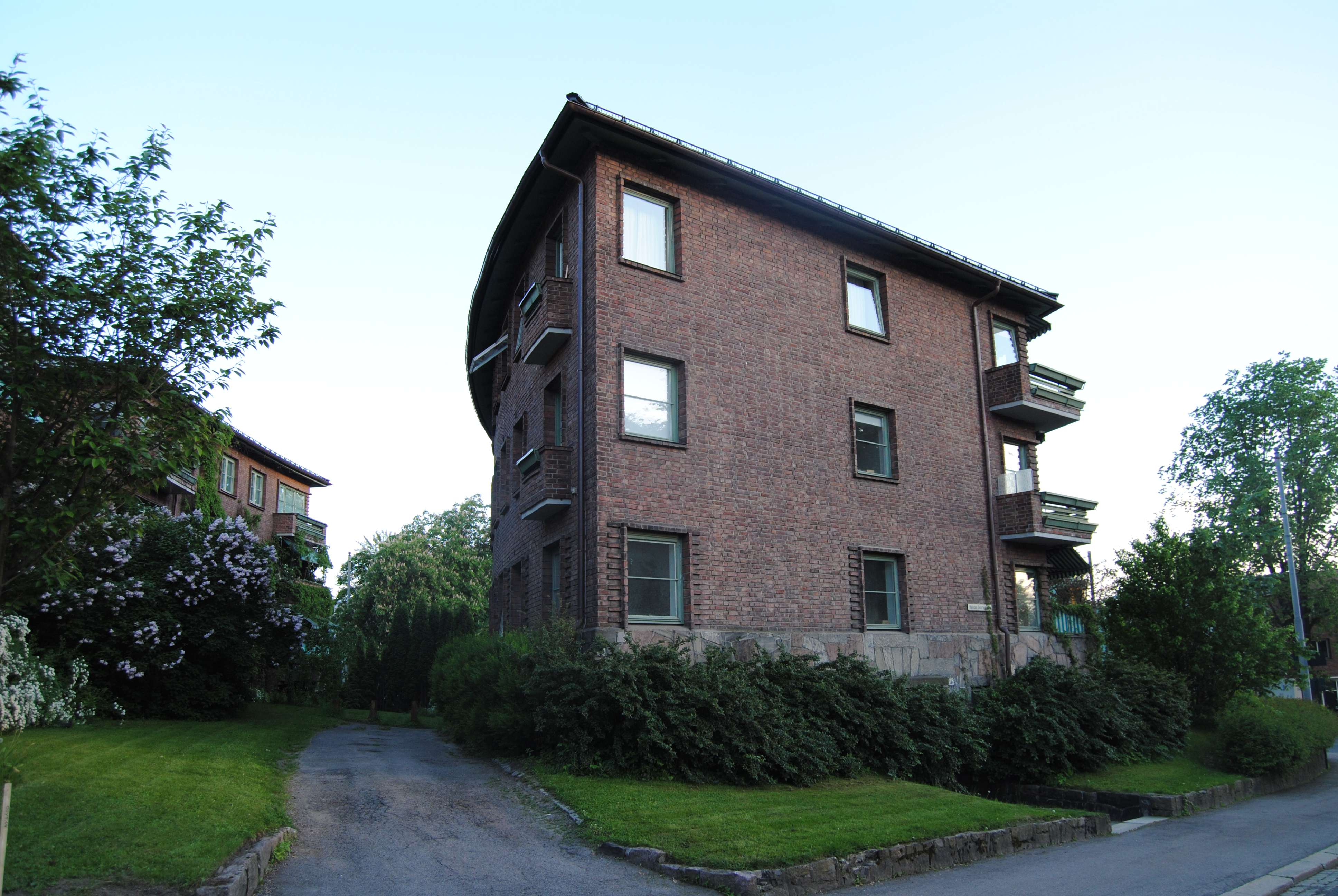 Drammensveien 115 B in Oslo, NorwayNorsk bokmål: Drammensveien 115 B